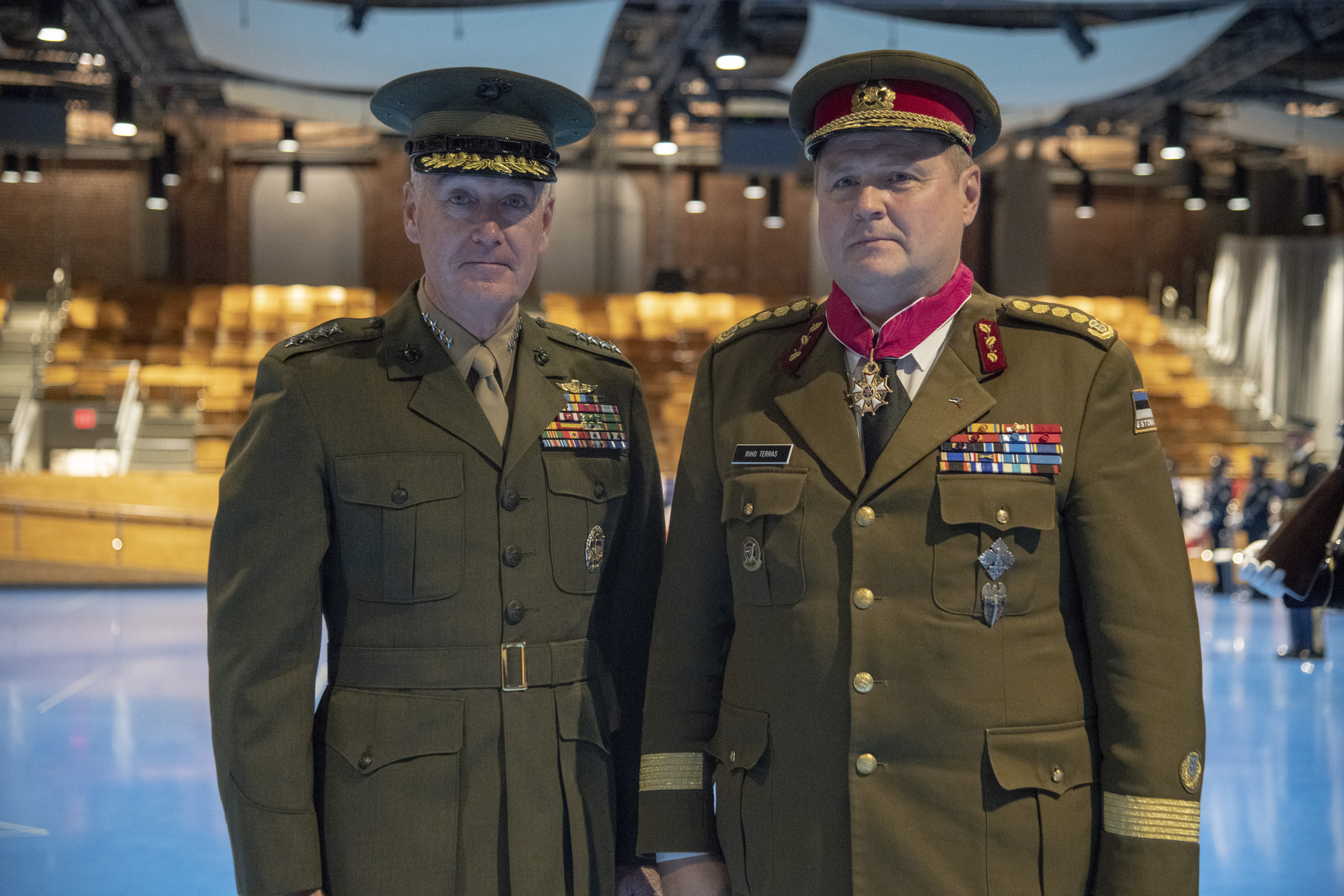 Marine Corps Gen. Joe Dunford, chairman of the Joint Chiefs of Staff, presents Estonian Gen. Riho Terras, commander of the Estonian Defense Forces, the Legion of Merit during an Armed Forces Full Honor Arrival ceremony at Joint Base Myer-Henderson Hall, Nov. 13, 2018. During the ceremony, Gen. Dunford presented Gen. Terras with the Legion of Merit for his outstanding leadership, personal initiative and dedicated support to the United States - Estonia military alliance. Gen. Terras efforts resulted in a significant expansion of cooperative operations and training between the Estonian Defense Force and the United States military, leading to improved security and stability in the European Theater. (DOD photo by Navy Petty Officer 1st Class Dominique A. Pineiro/Released)